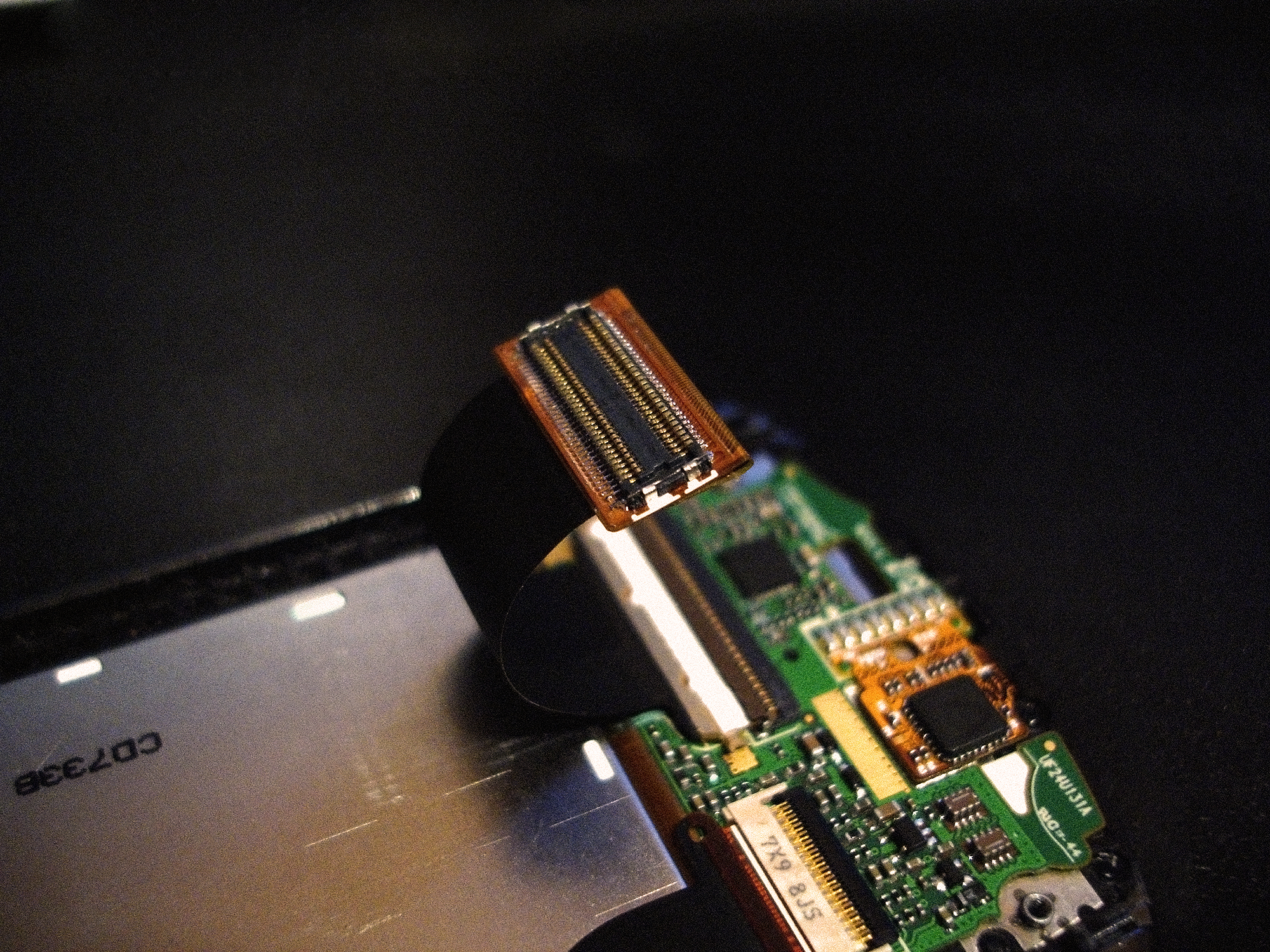 Close-up of the flexible flat cable (FFC) connector, used to connect the two halves of the Samsung SGH-U700 slide phone.